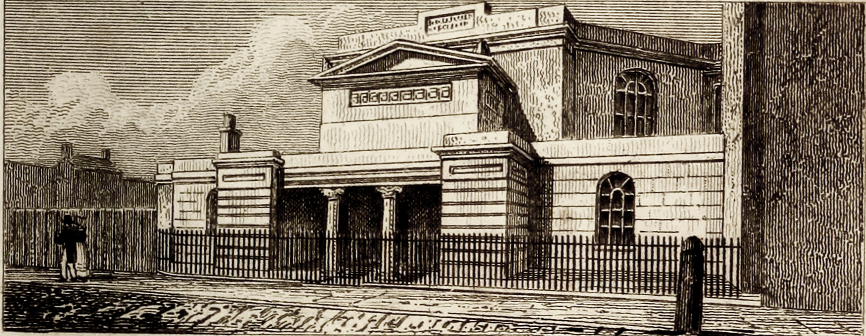 Engraving of the Presbyterian Old Jewry Meeting-house in Jewin Street, City of London. This is the second chapel, designed by Edmund Aikin, built in 1808 and demolished in 1846. Jewin Street no longer exists.